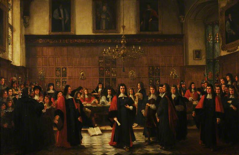 Tonneau, Pierre Francois Joseph; The Expulsion of the Fellows, 1687; Magdalen College, University of Oxford The expulsion of the Fellows of Magdalen College, Oxford by James II in 1687. James II wished to nominate a Catholic president of the College, but this was resisted by the Fellows who nominated an Anglican president from their own number. For defying the King, most of the Fellows were expelled and James II replaced them with mainly Catholic or Catholic-sympathising nominees. This would be reversed on 25 October 1688 as William of Orange prepared to invade. The restoration of the Fellows is commemorated annually at the College during the Restoration Dinner. In 1884, the College commissioned this painting of the event, which depicts Fellows leaving the dining hall.